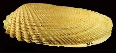 Petricola pholadiformis; marine bivalved shell commonly occurring in the North Sea.